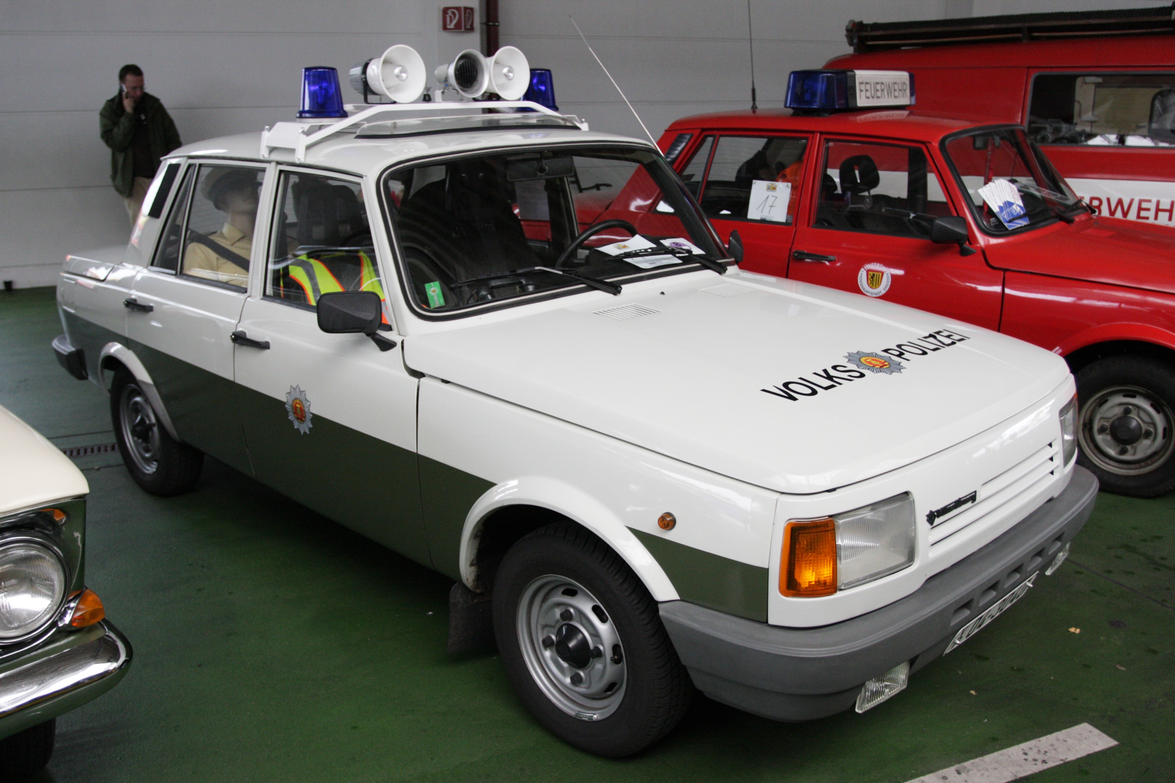 GDR police car (Wartburg 1.3) "Volkspolizei"